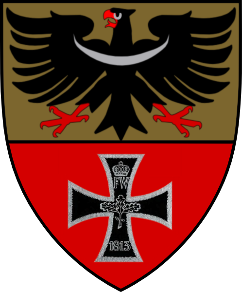 Coat of arms of Breslau from 1938.